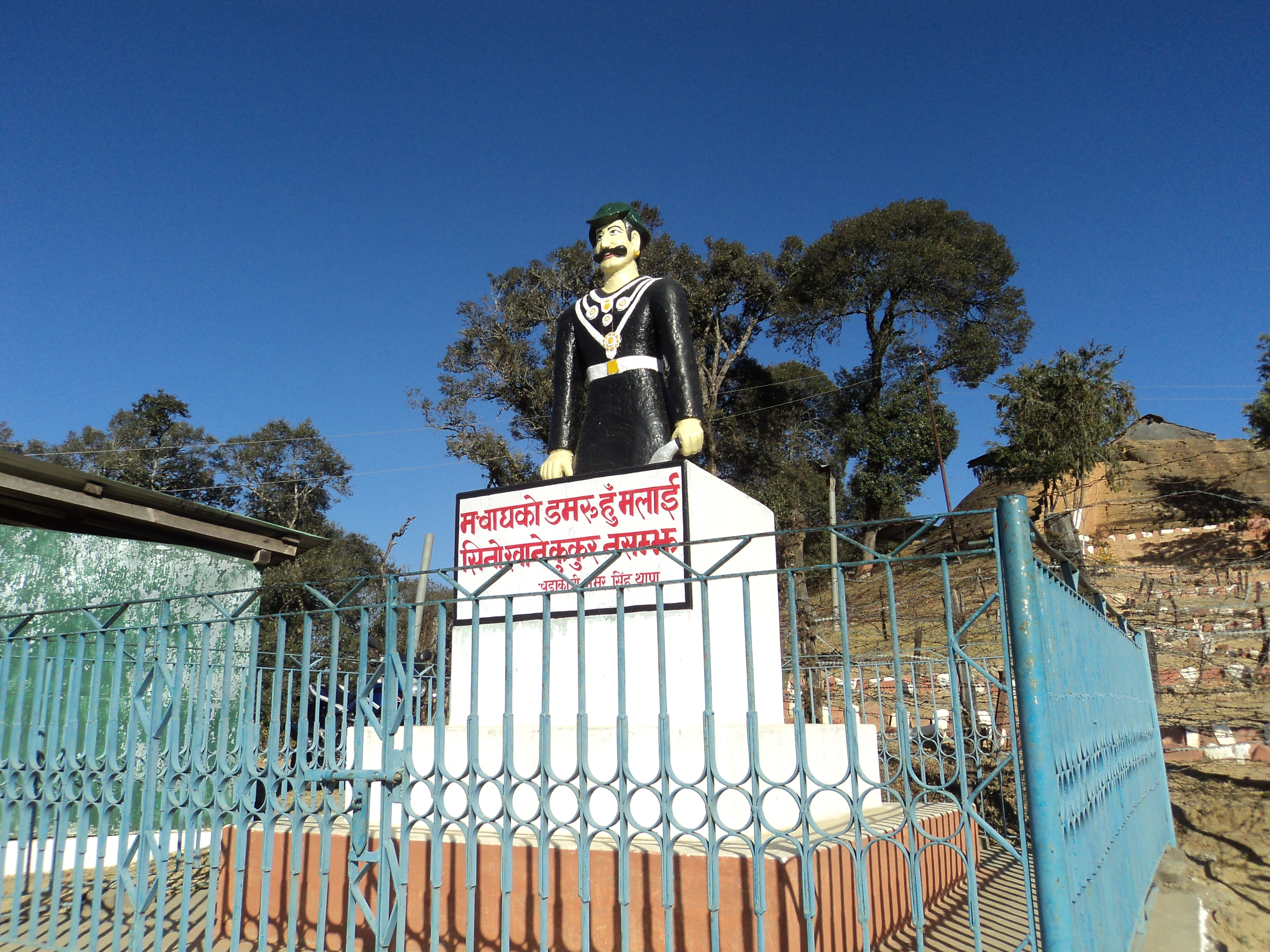 Statue of Amarsingh from Amar Gadi Fort, Dadeldhura, Nepal